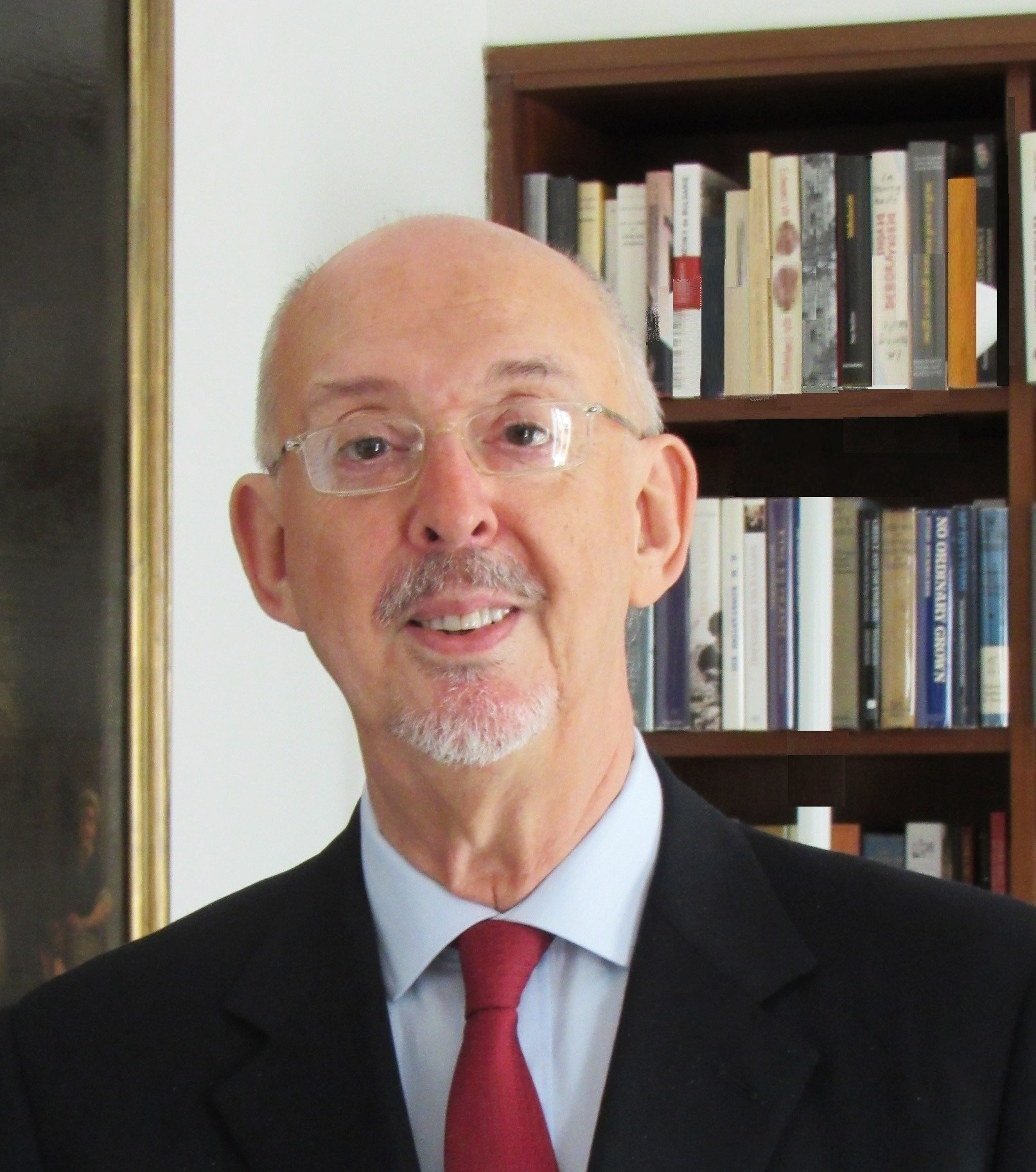 Marchisio photo